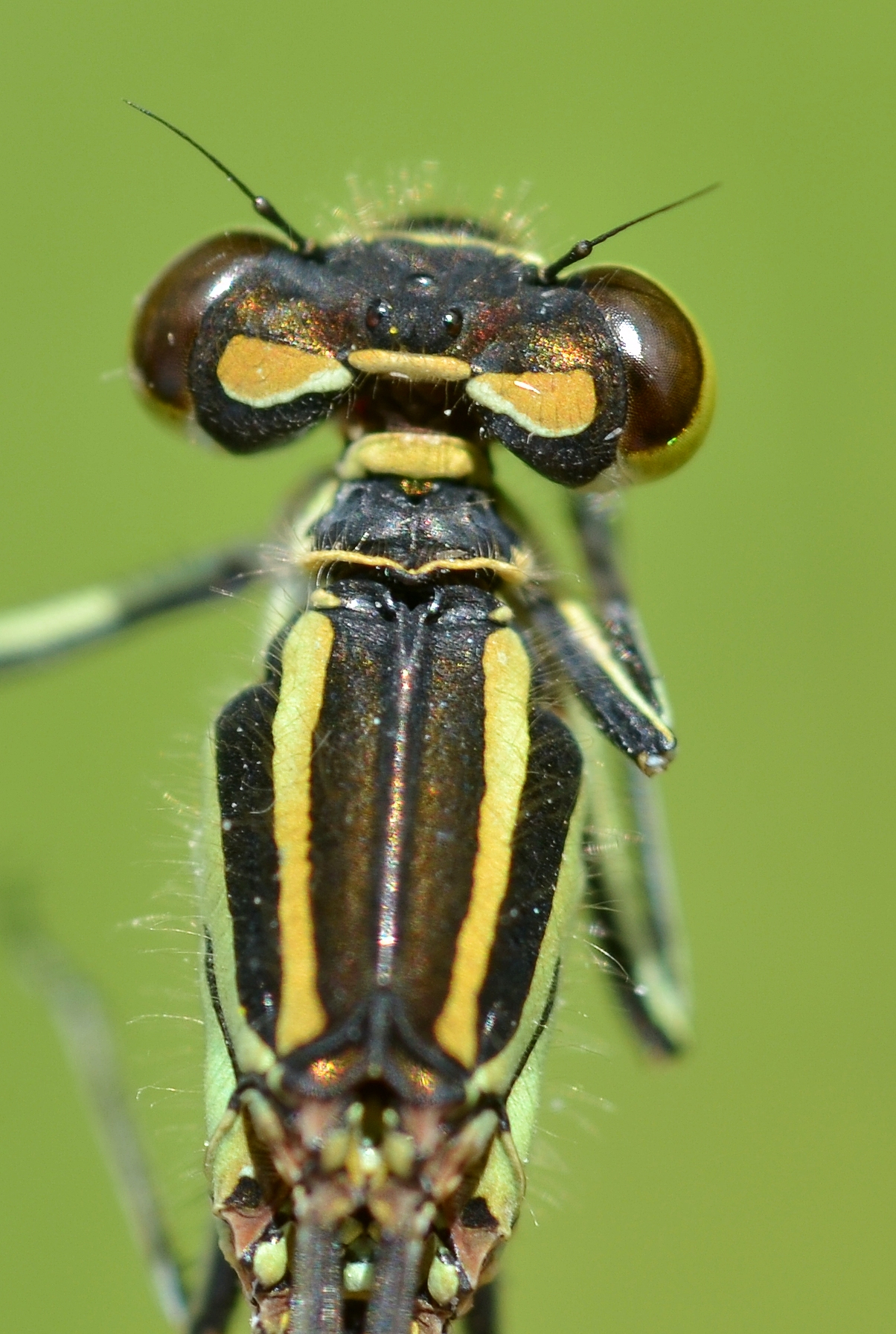 Northern Damselfly Coenagrion hastulatum Detail of the typical pronotum shape